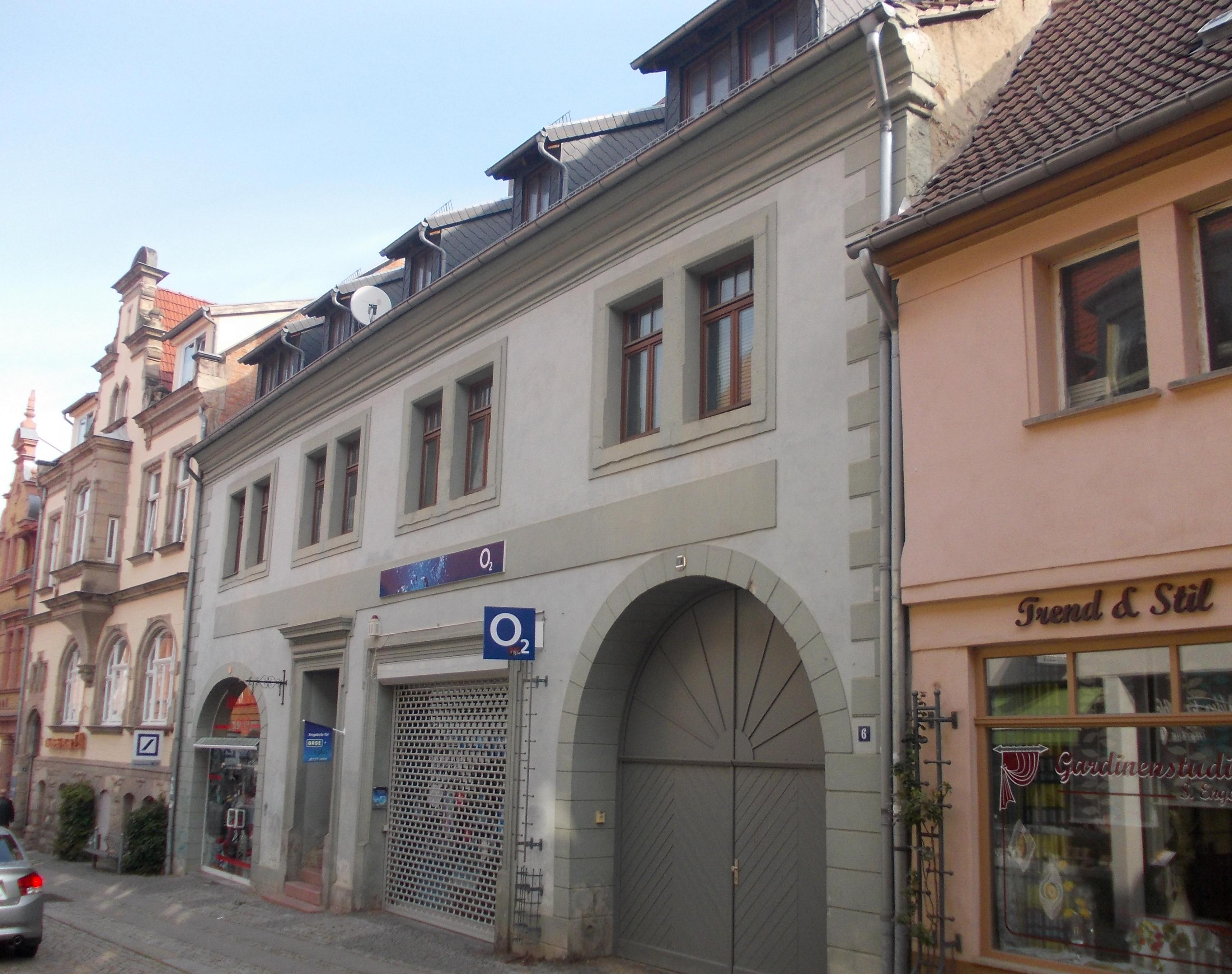 No.6, Göpenstrasse in Sangerhausen (Mansfeld-Südharz district, Saxony-Anhalt)